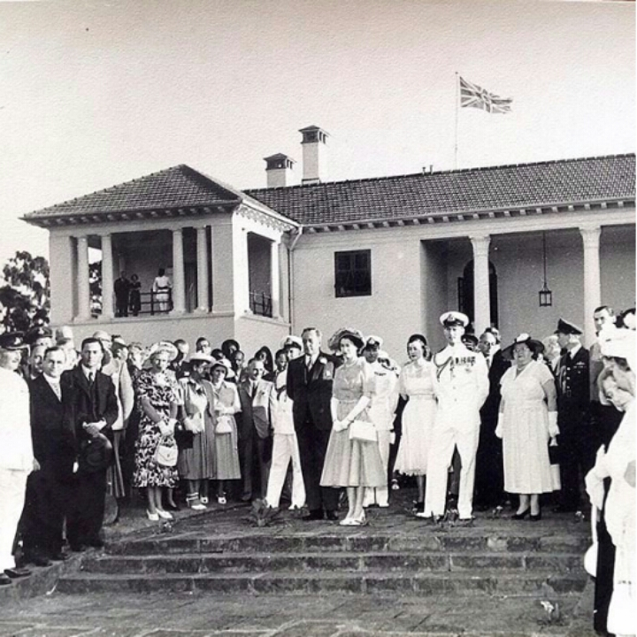 Princess Elizabeth at Government House Nairobi in 1952